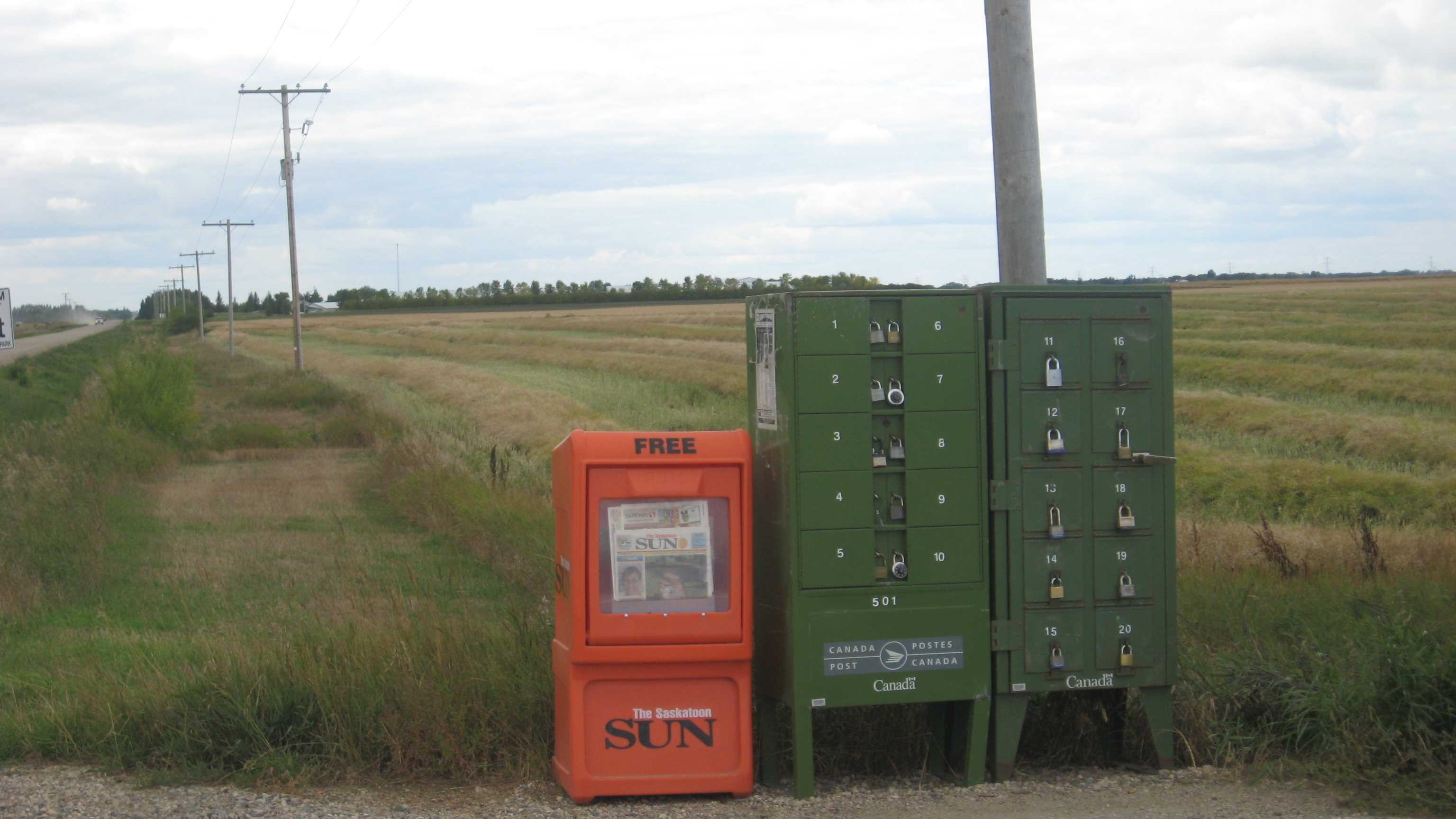 Canada Post "superboxes" at the end of Route 663, the old Highway 11, outside Saskatoon, Saskatchewan. Shot September 2008